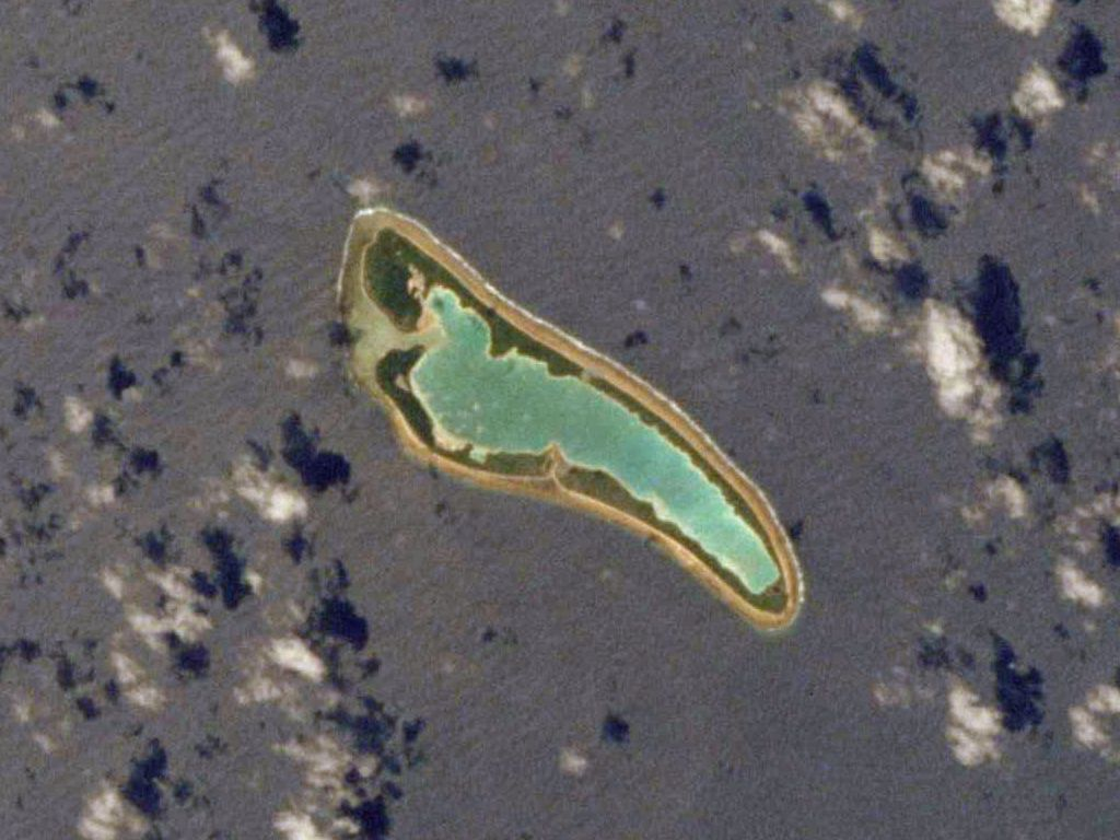 NASA astronaut image of Nikumaroro (Phoenix Islands, Kiribati) in the Pacific Ocean